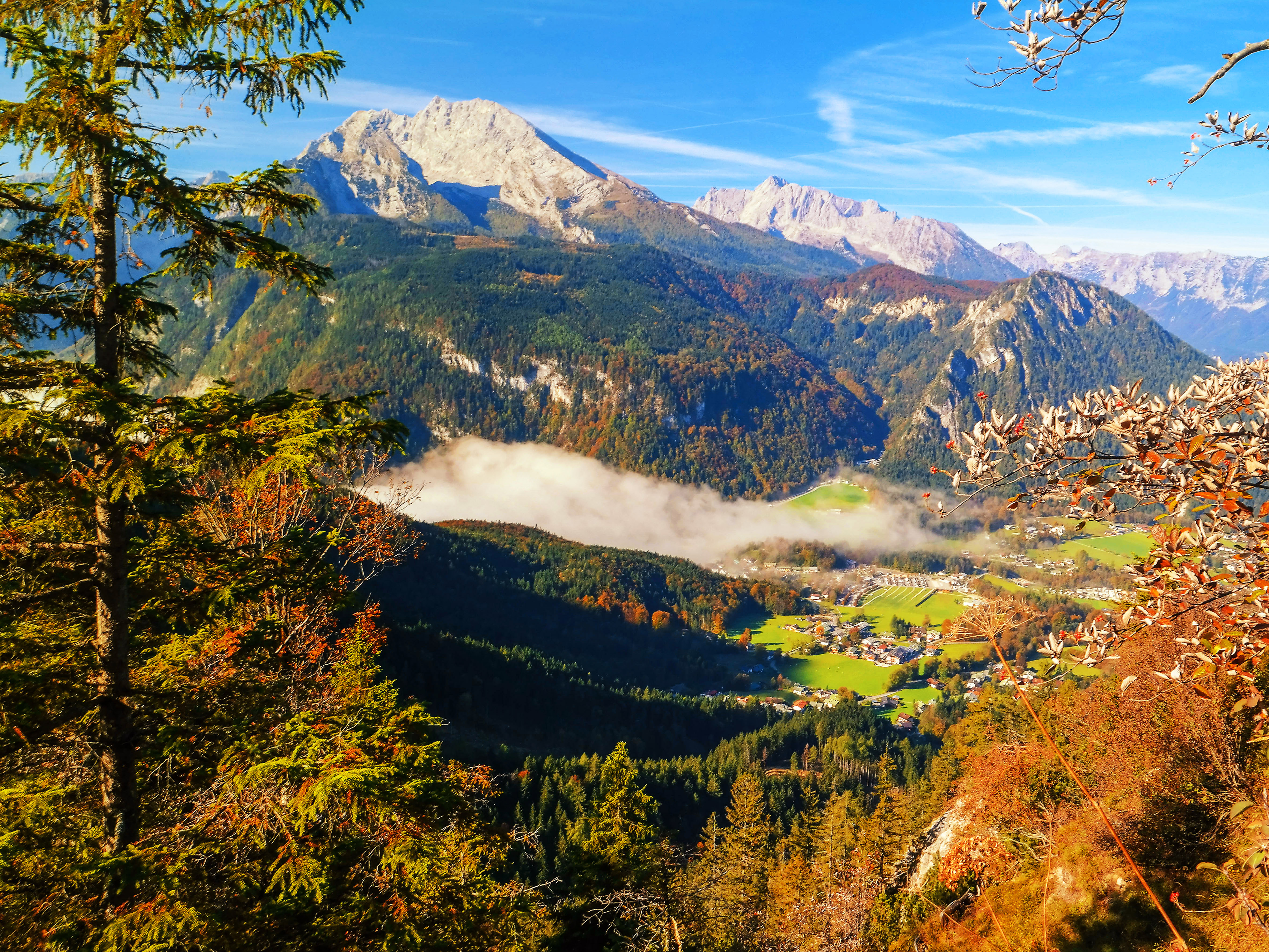 Autumn in Berchtesgaden overloking Watzmann and Hochkalter